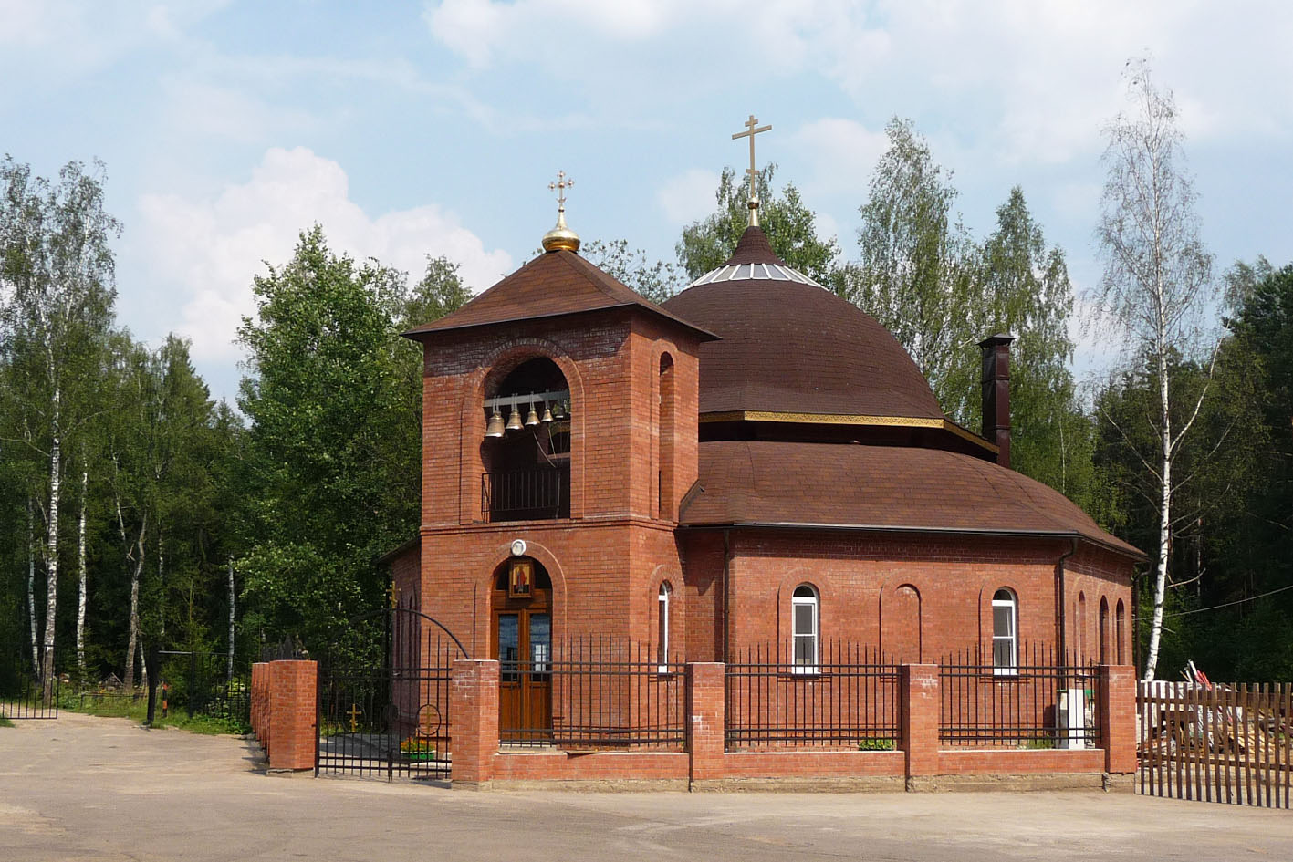 The Church of Saint Vladimir at the New Fryazino Cemetery. The village of Novofryazino, Shchyolkovsky District, Moscow oblast, Russia (2008).